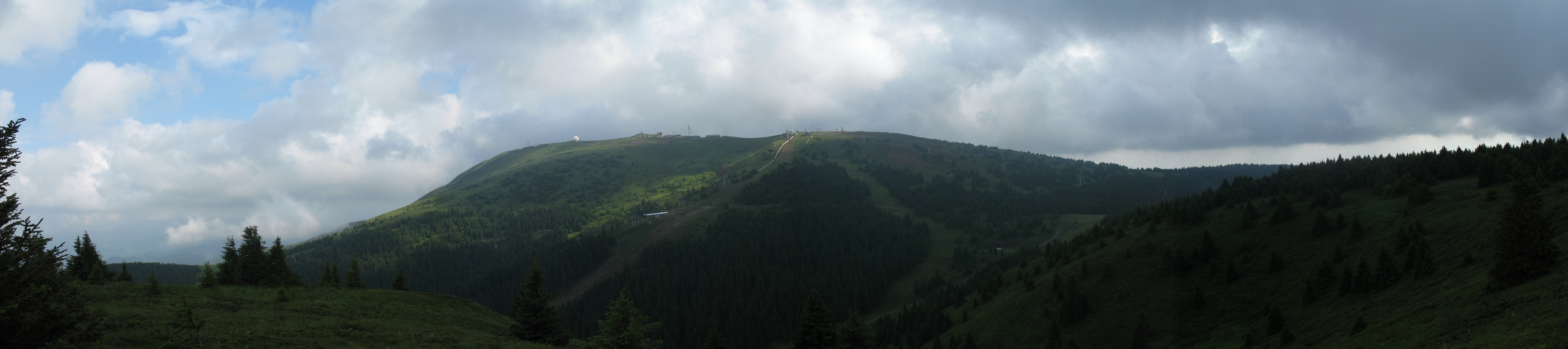 Panoramic view on Pančićev vrh (on the left) and Suvo Rudište (on the right), highest peaks on Kopaonik, Serbia.